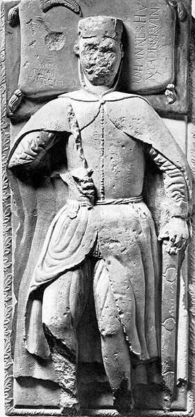 The cover of John Hunyadi's tomb. Edited by: Báró Forstner Gyula. Volume I; Hornyánszky Viktor Udvari Könyvnyomdája, Budapest, 1905, table I; Cathedral of Alba Iulia; Photograph: Hollenzer és Okos